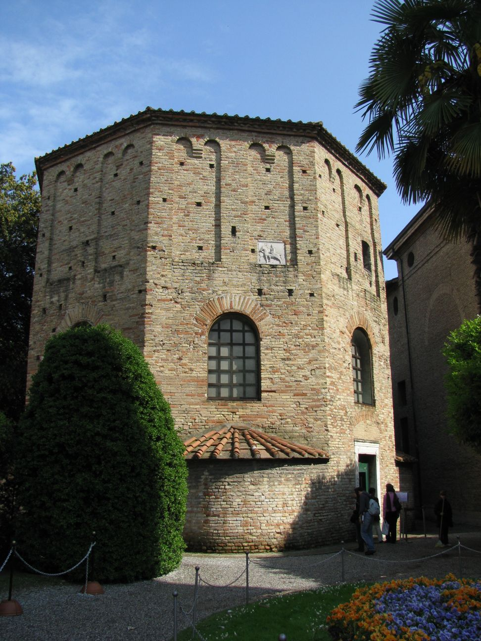 Bapistry of Neon in Ravenna.